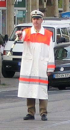 German police officer regulating traffic with a traffic baton Interlingue: Un trafic policist in Germania